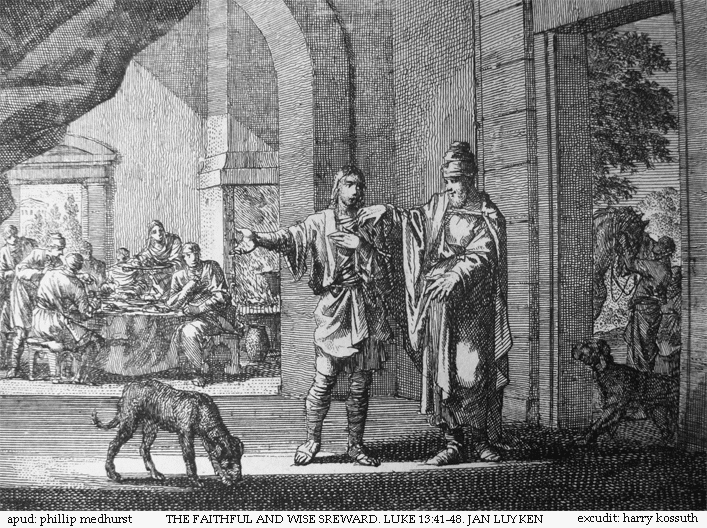 An etching by Jan Luyken illustrating Luke 13:41-48 in the Bowyer Bible, Bolton, England.